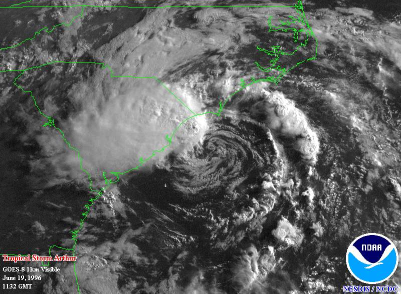 From this image shows 45 mph Tropical Storm Arthur off the coast of South Carolina on June 19, 1996.